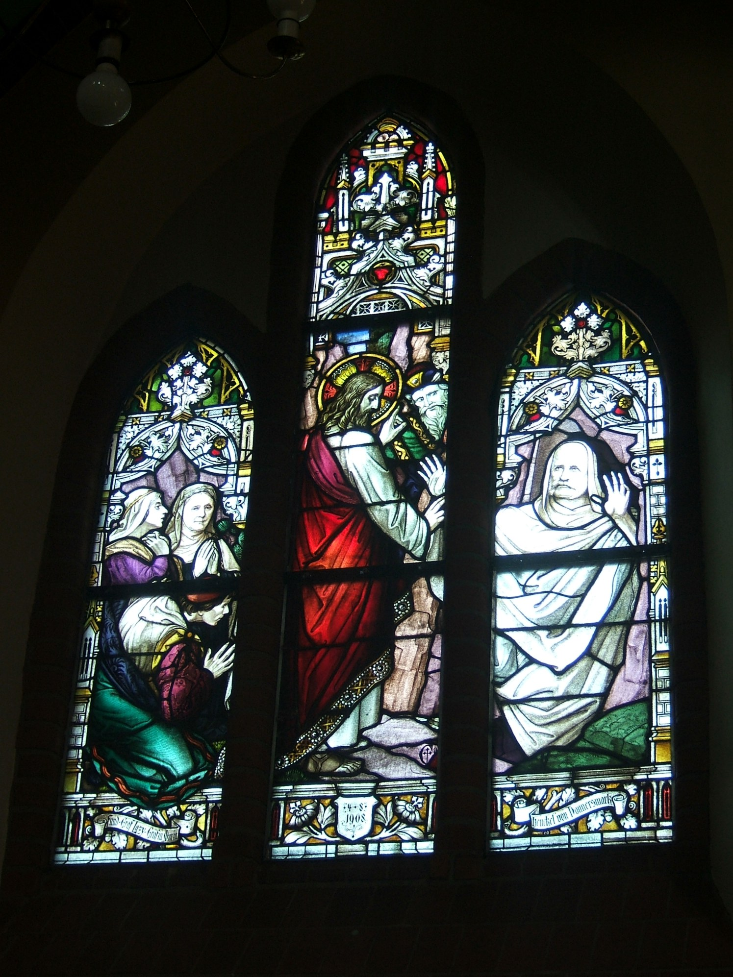 Stained glass in the church of St. Lawrence in Wirek, a district of Ruda Śląska showing the Resurrection of Lazarus (Lazarus being a portrait of Guido Henckel von Donnersmarck and Martha of his wife).